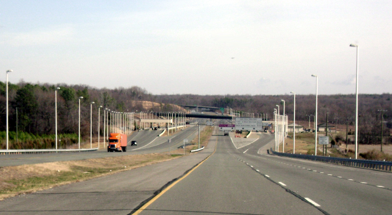 Approaching the mainline toll plaza on Virginia State Route 895 in Henrico County, Virginia.